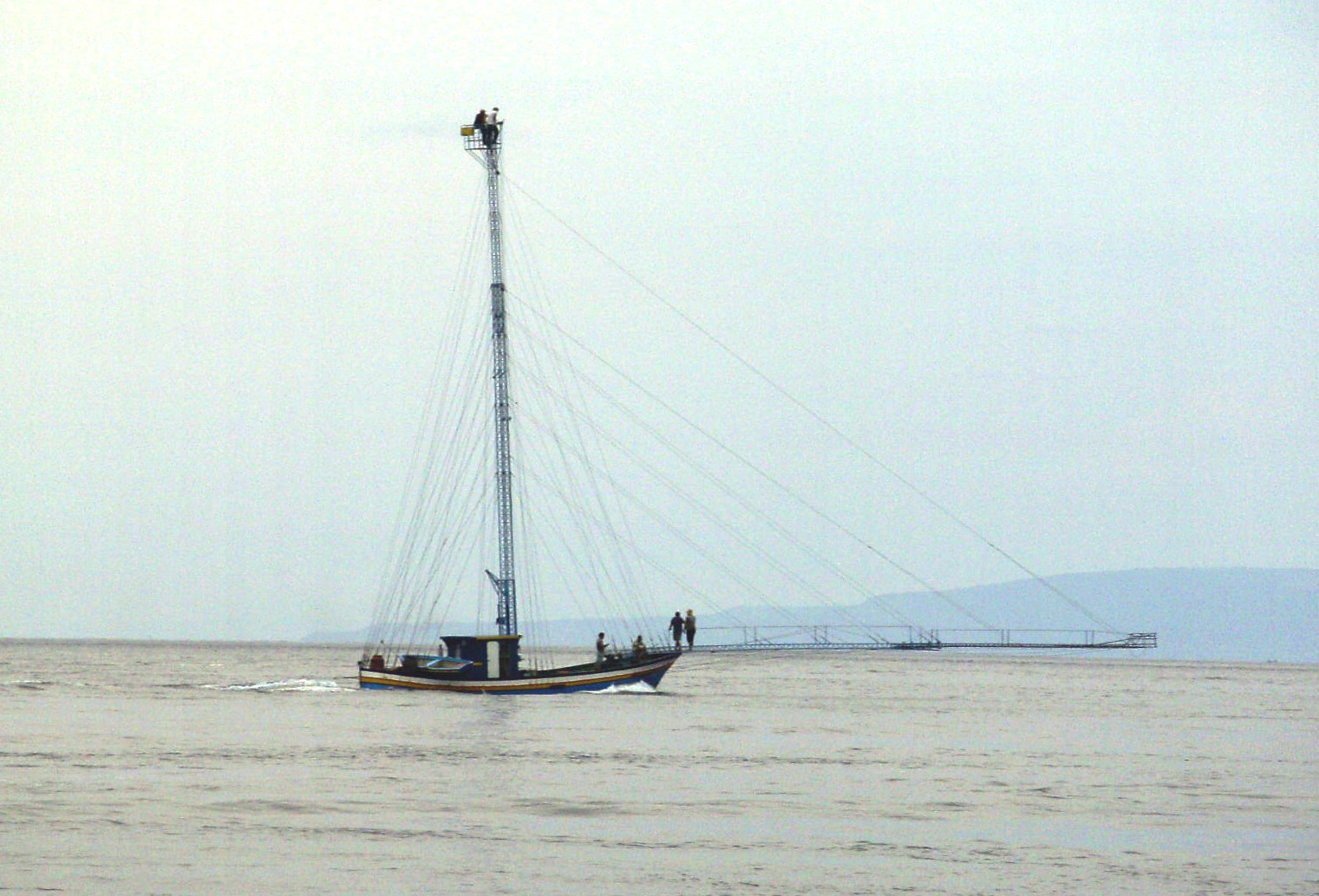 The same of Barca pescespada 1 and 2.